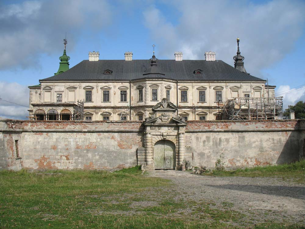 Pidhirtsi (Ukrainian: Підгірці